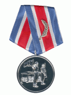 Blå Beretters Fredsprismedalje Peace Prize Medal (Denmark) Peace Prize Rememberence Medal of Denmark